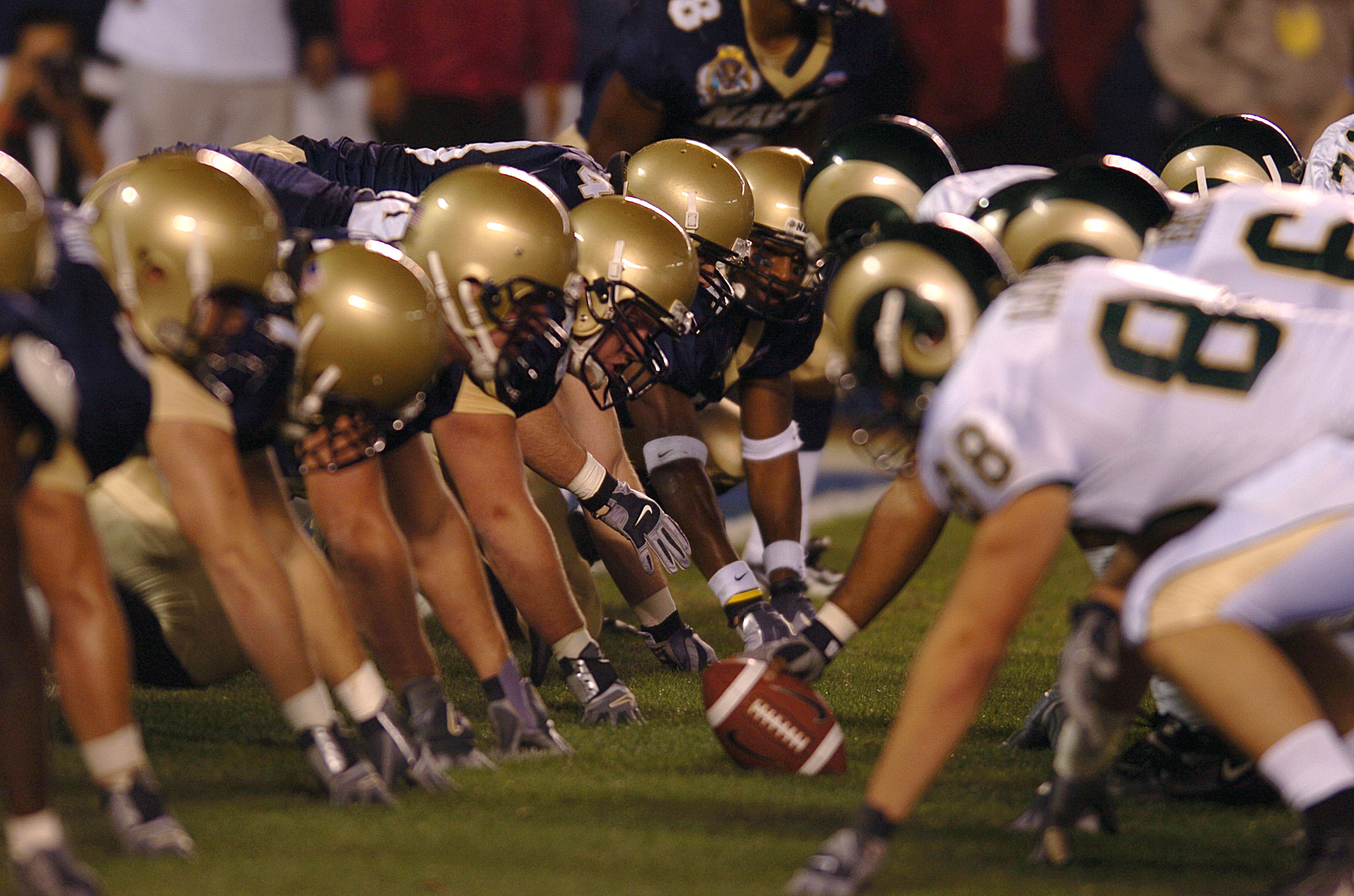 The U.S. Naval Academy Midshipmen position themselves defensively in preparation for a play by the Colorado State Rams.